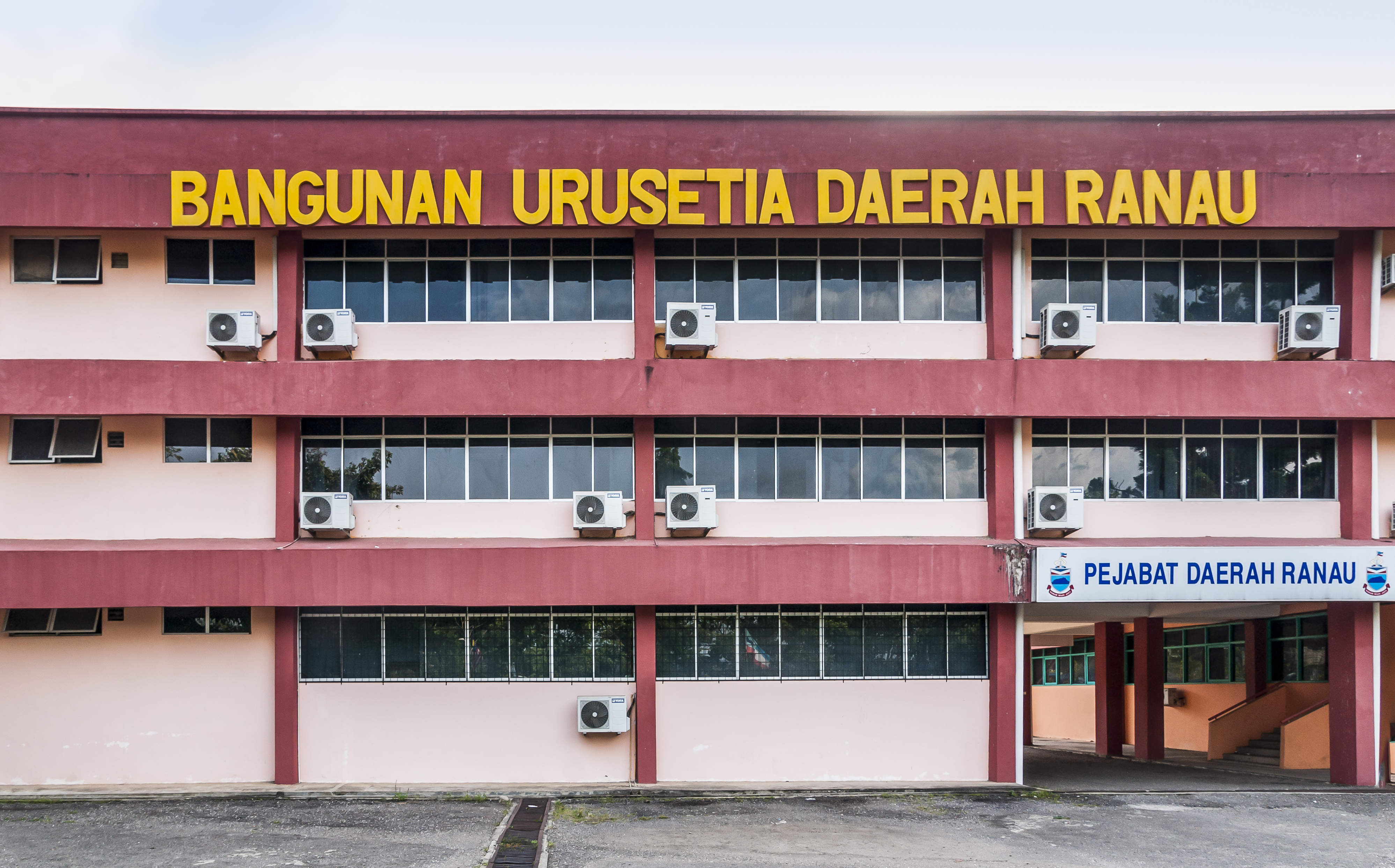 District Office Ranau (Pejabat Daerah Ranau)